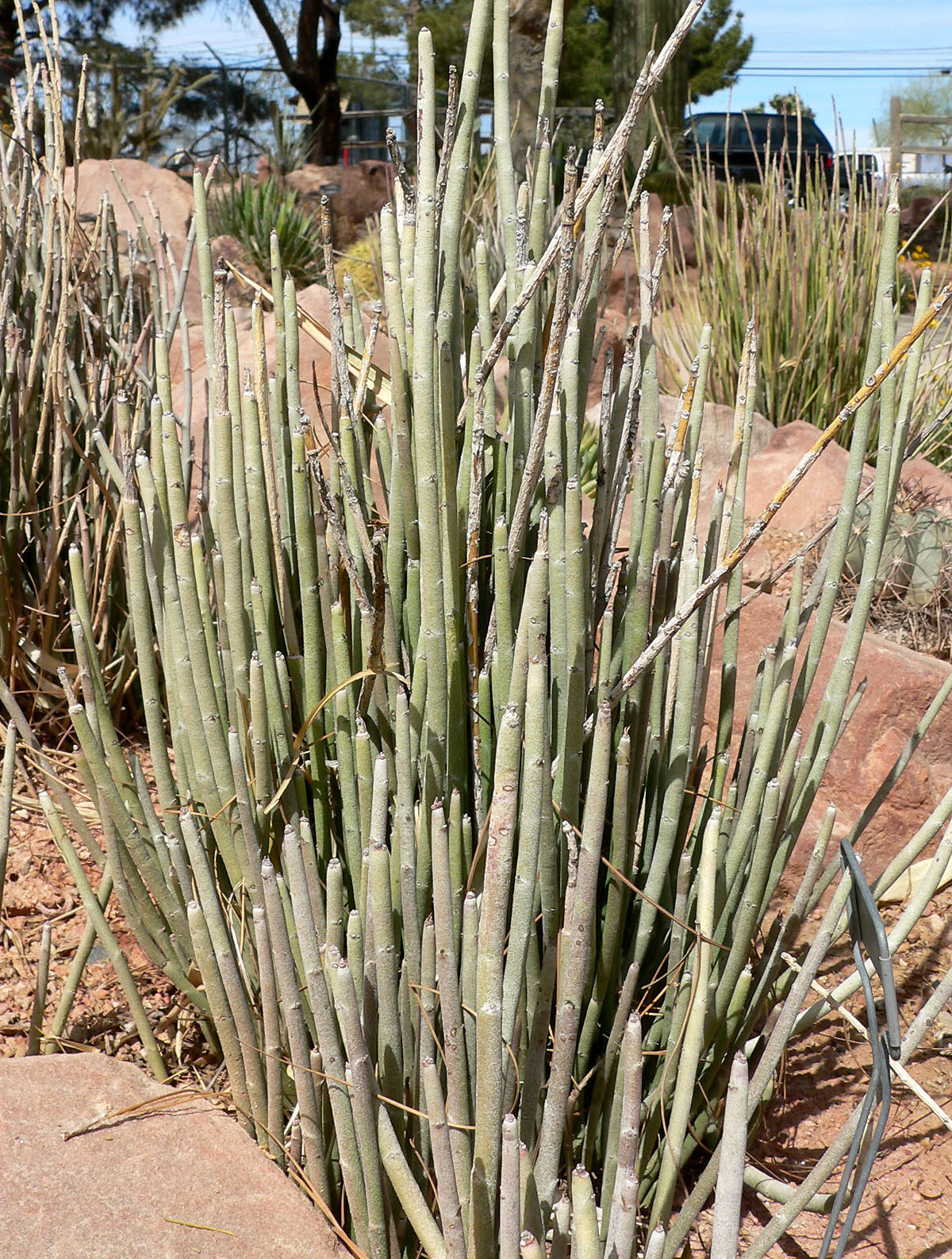 Euphorbia antisyphilitica at the Springs Preserve garden, Las Vegas, Nevada